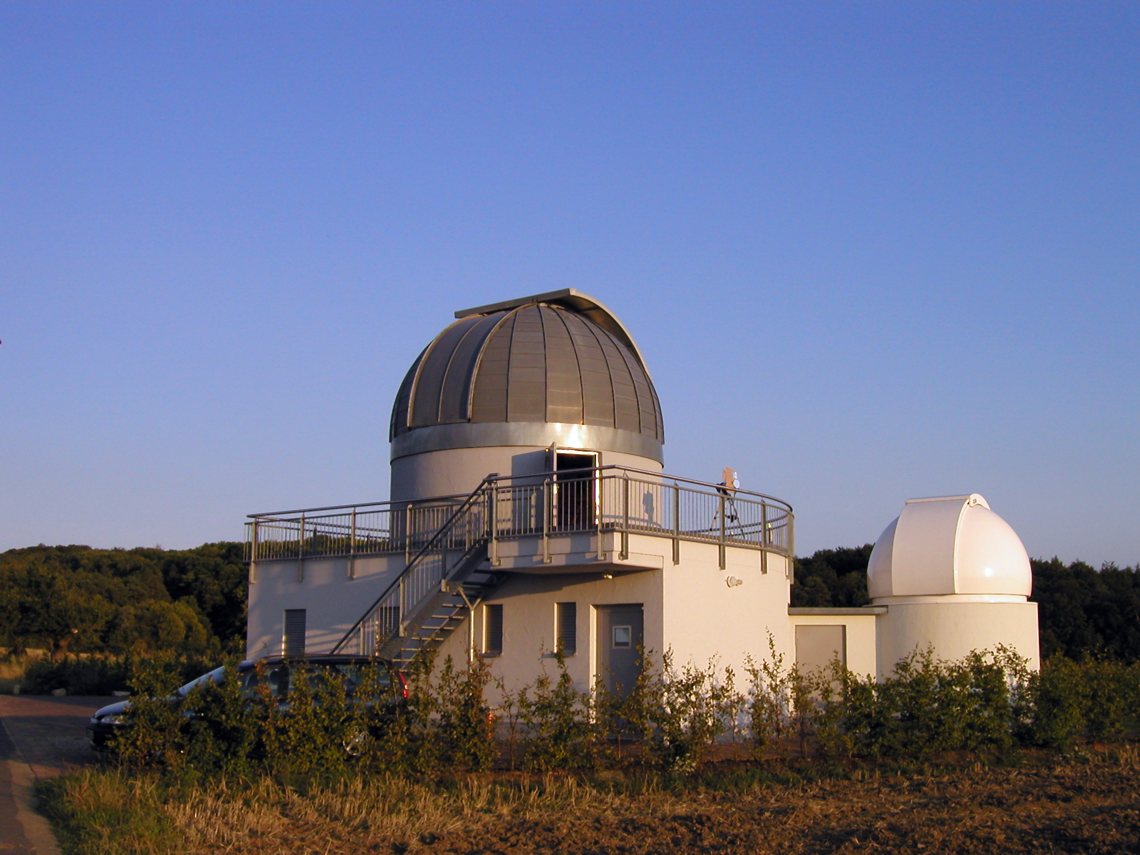 The Observatory on the "Gallows Hill" in Weikersheim